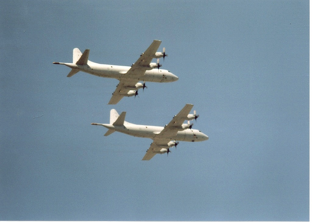 Formation of two P-3B Orions of the Hellenic Navy (operated by the Hellenic Air Force 353 squadron) over Athens.